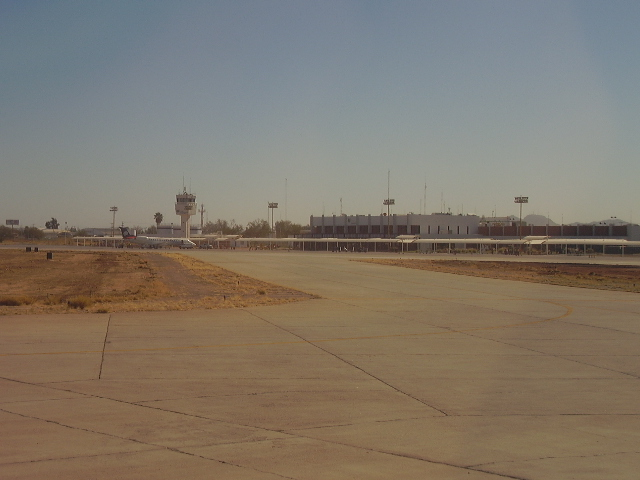 Hermosillo International Airport